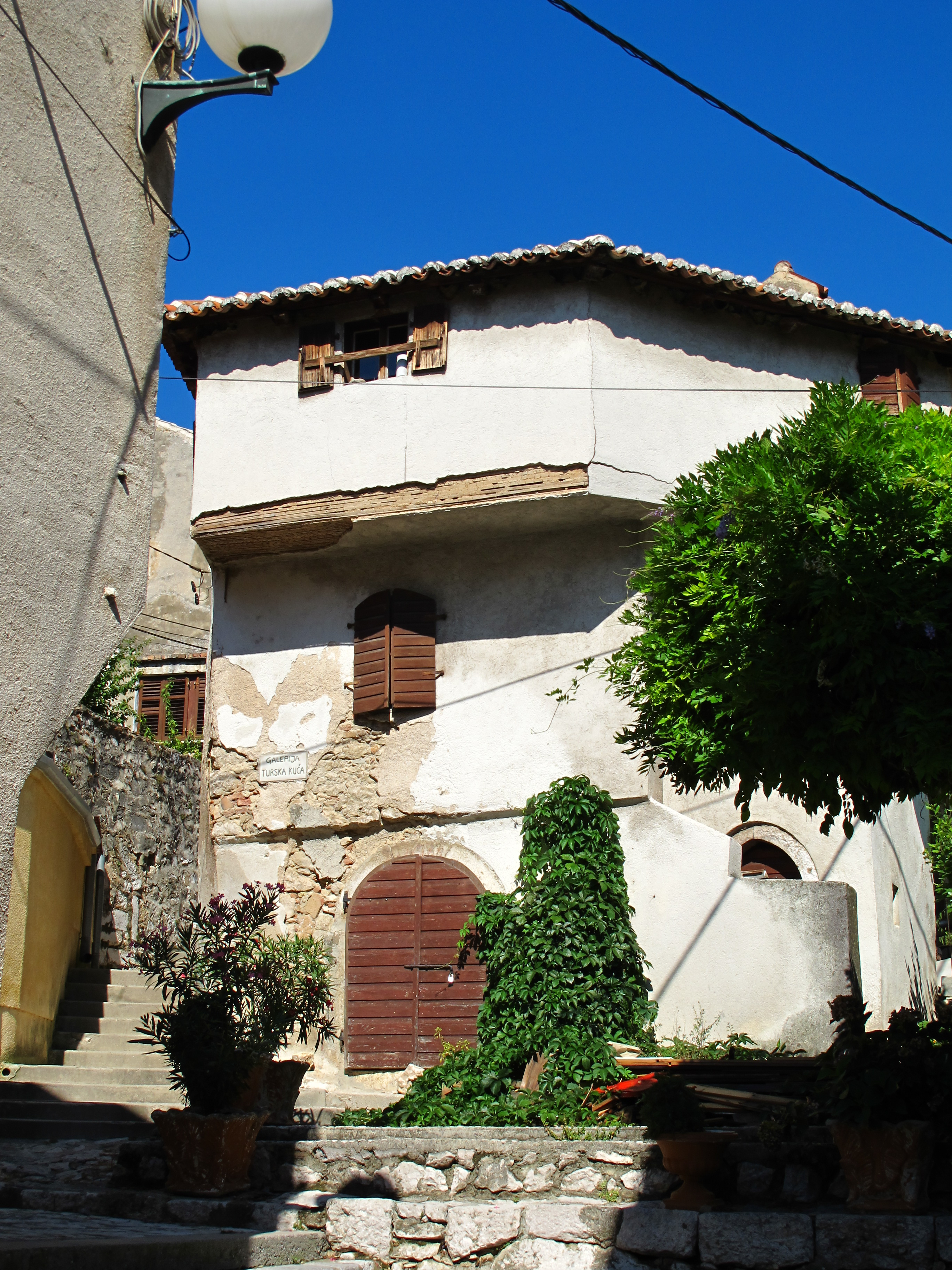 "Turkish Home" of Barkar at Bay of Bakar / Croatia / Adriatic Sea.